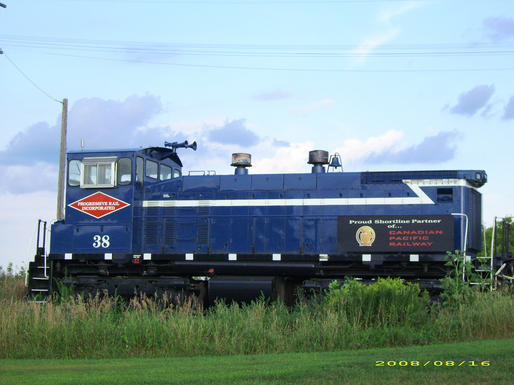 Here's a shot of Progressive Rail locomotive number 38. This was taken parked at Rosemount, MN.